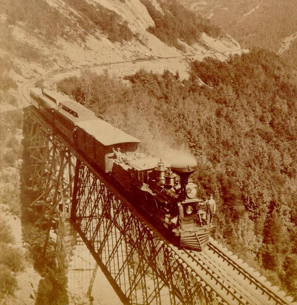 Pass of the Crawford Notch and Train -- this shows a Portland & Ogdensburg Railroad train crossing the Willey Brook Bridge, 400 feet (122 meters) long and 94 feet (29 meters) high, which spans the chasm between Mount Willey and Mount Willard.